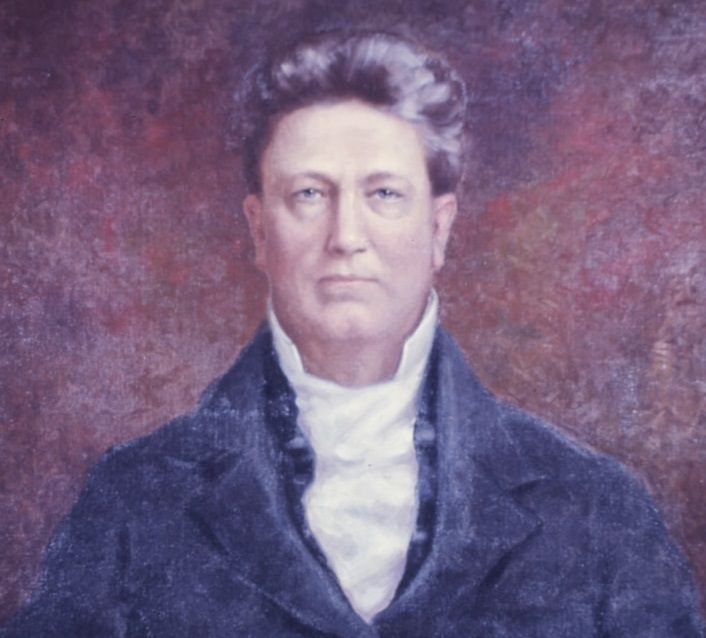 Hiram G. Runnels, Mississippi Governor.